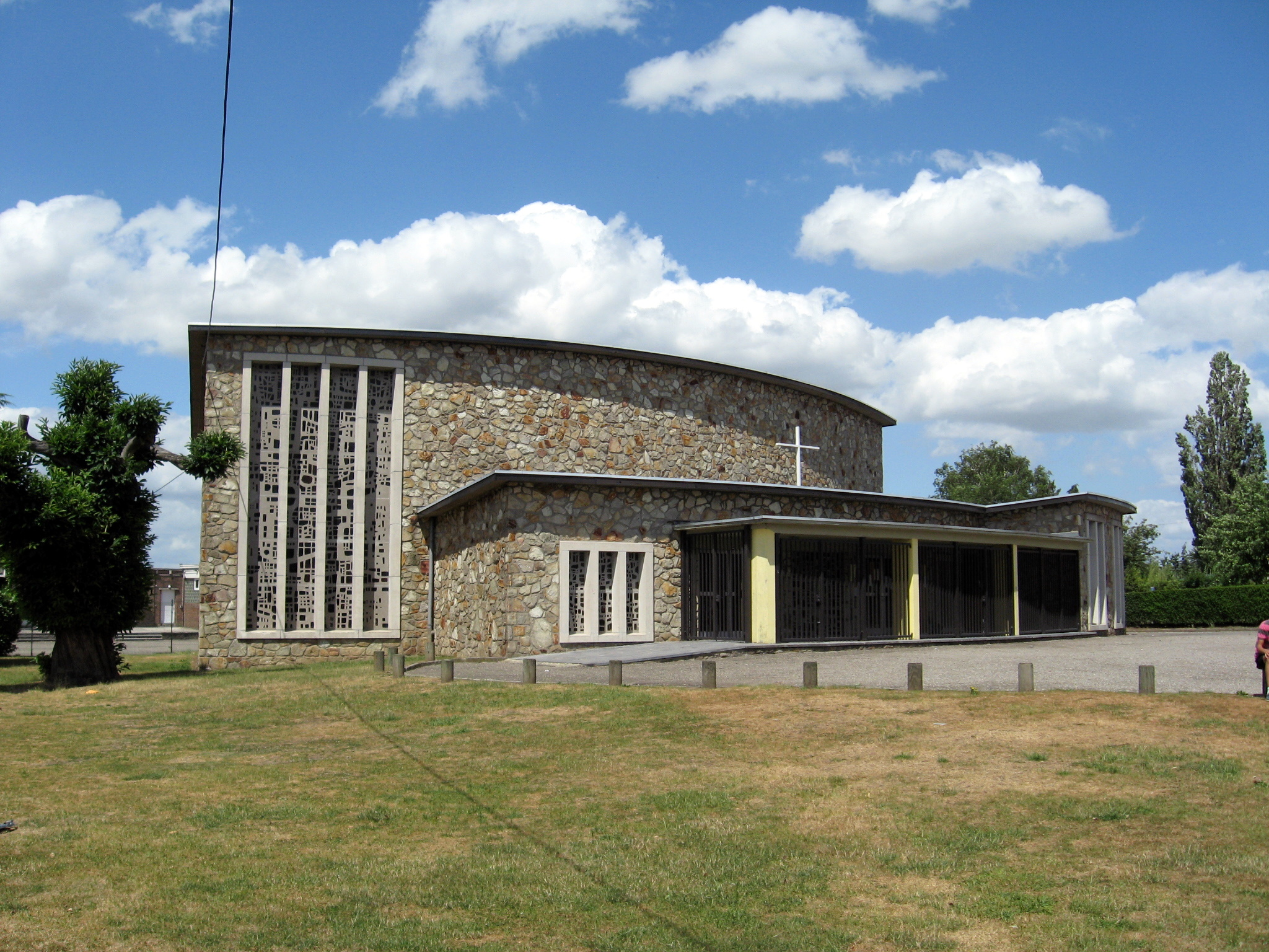 Church of Saint-Joseph in Les Bruyères, Jupille-sur-Meuse, Liège, Liège, Belgium